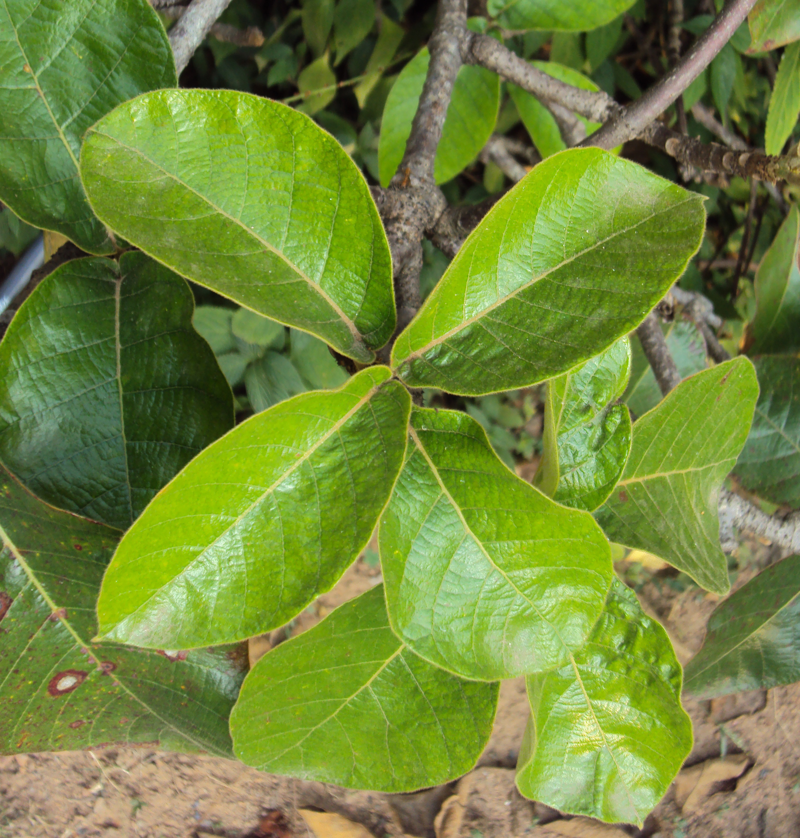 Chonemorpha fragrans - Franginpani vine leaves - പെരുങ്കുരുമ്പ